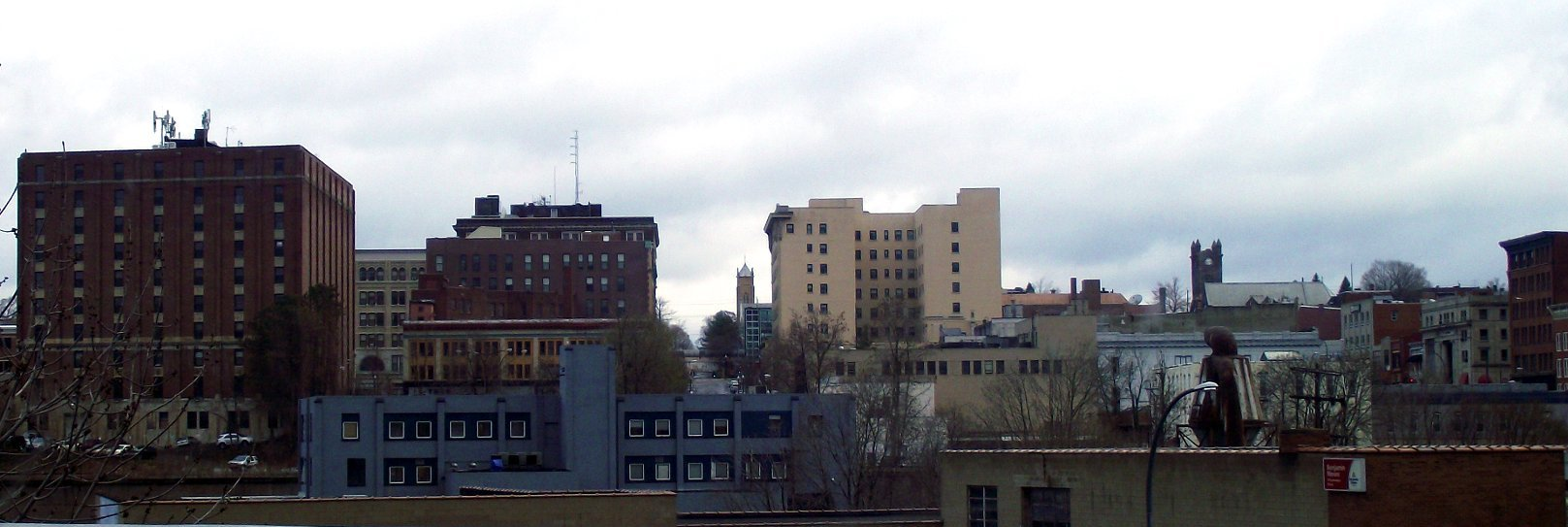 Skyline of Jamestown, NY looking north